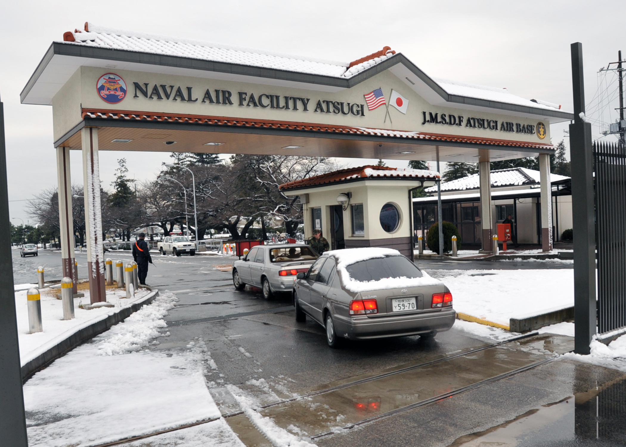 ATSUGI, Japan (Feb. 2, 2010) Naval security police ensure security at the main gate of Naval Air Facility Atsugi during the first snowfall of the year. (U.S. Navy photo by Mass Communication Specialist 2nd Class Steven Khor/Released)